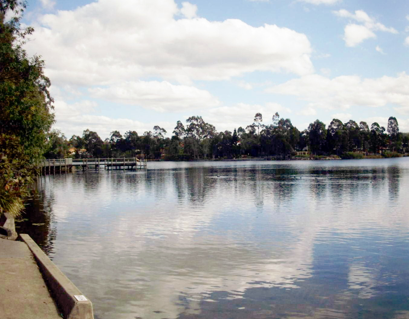 photo self-taken with own camera